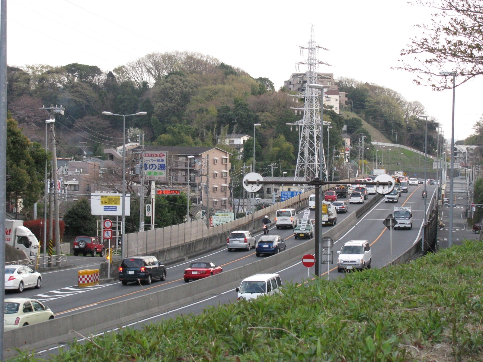 Totsuka Road of National Route 1 in Yokohama, Kanagawa, Japan.